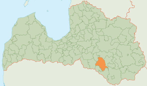 Map of Jēkabpils municipality, Latvia